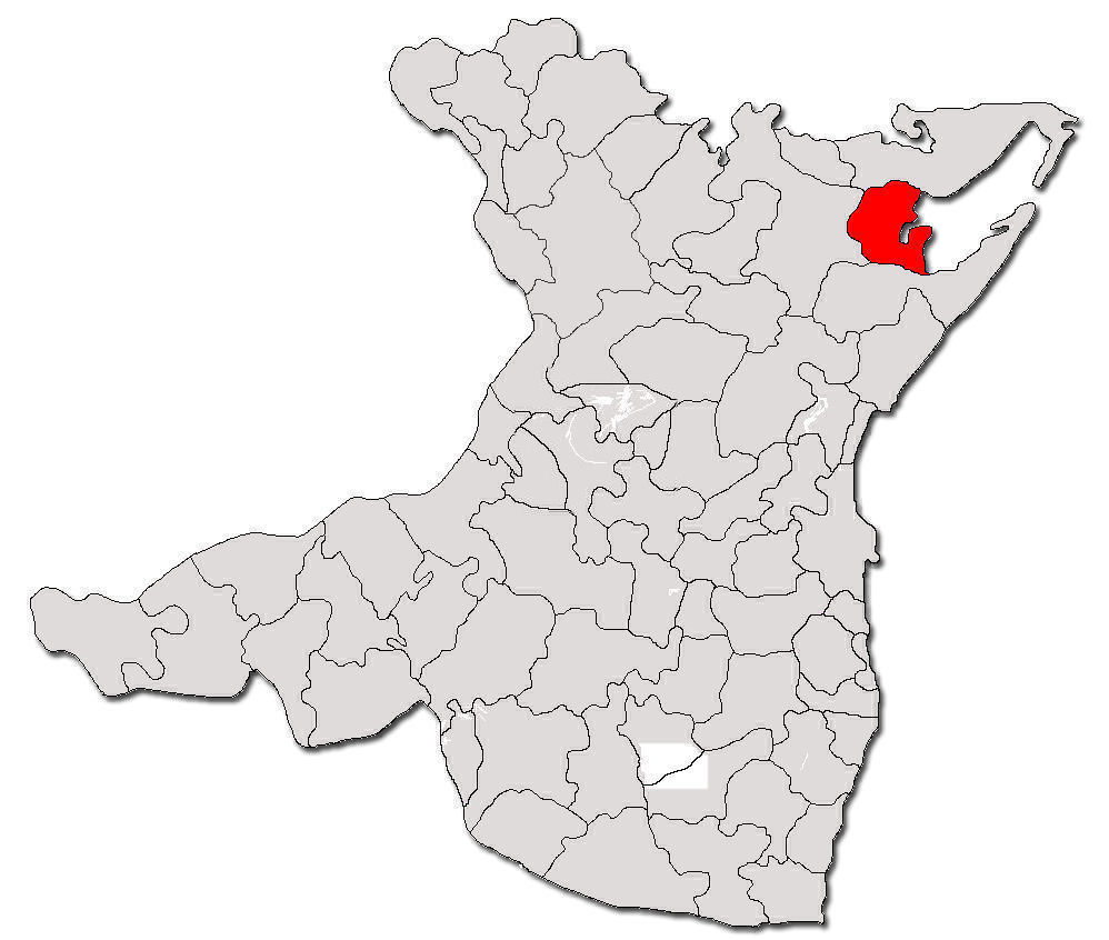 Contour map of Istria commune